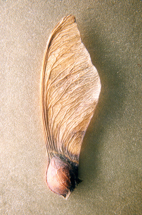 Description = Maple (Acer pseudoplatanus) seed De. Ahorn (Acer) Same Source = photo taken by Kobako Date = Nov. 2010 Author = Kobako